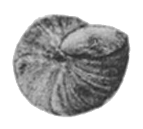 Photo of an umbilical view of the shell of Teratobaikalia macrostoma. Locality: Maloje More, Baikal Lake.